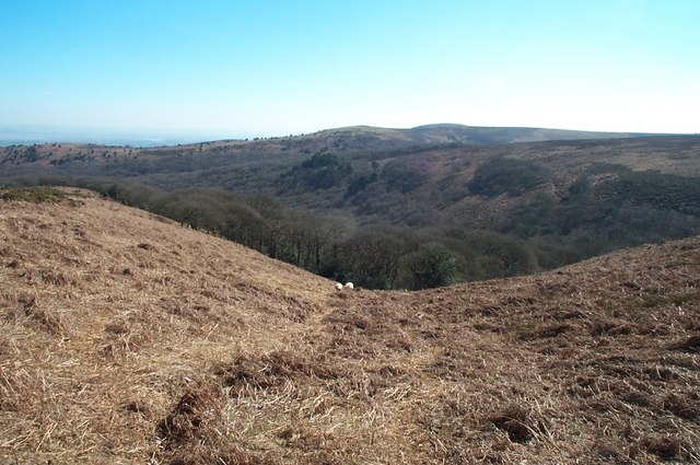 Black Ball Hill. Looking east down the hill into Slaughterhouse Combe.